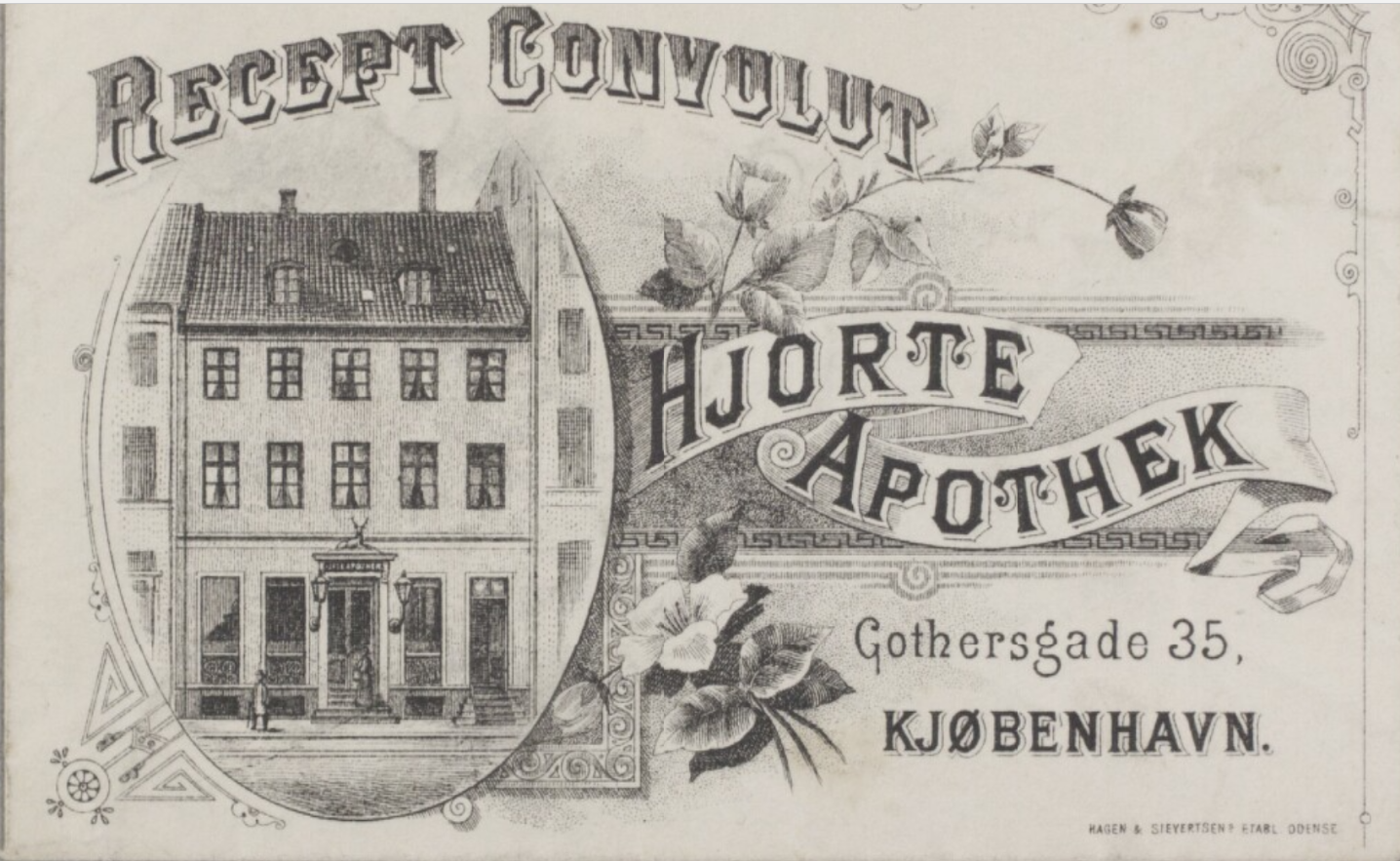 From Hjorte Apotek at Gothersgade 35 in Copenhagen, Denmark